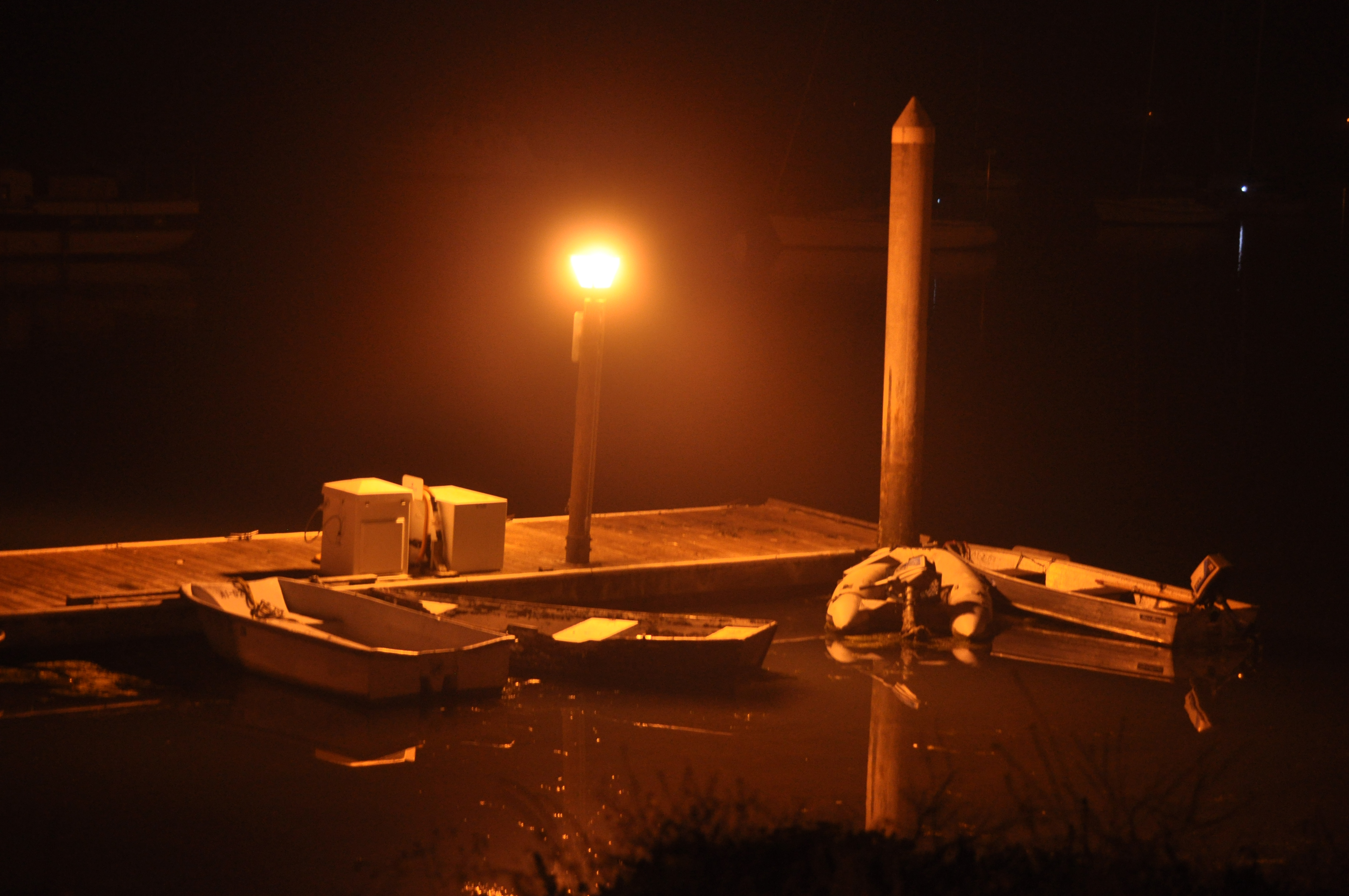 Morro Bay with Bruce Gammill photo D Ramey Logan